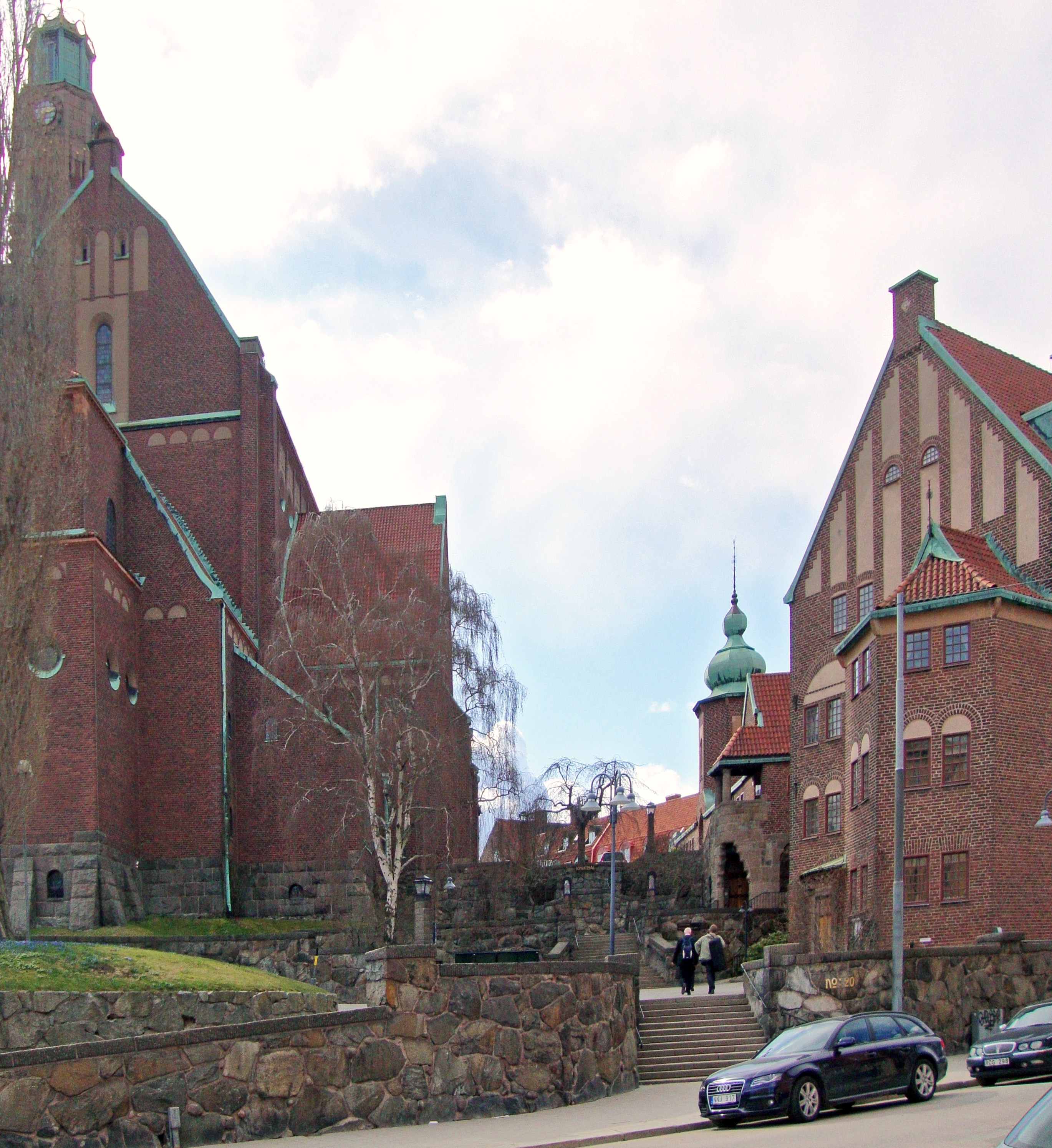 Engelbrektskyrkan in Östermalm, Stockholm, Sweden.